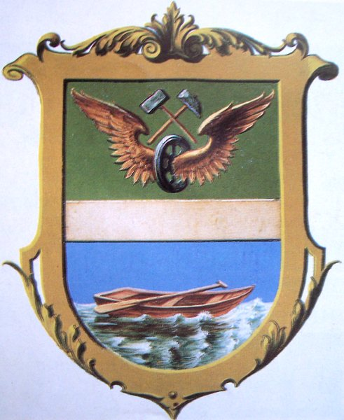 Historical coat of arms of Přívoz